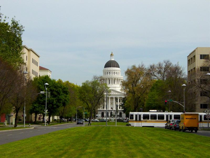 Photo taken on Sacramento's Capitol Mall on April 10, 2003. Image may be reused under terms of the GNU FDL.